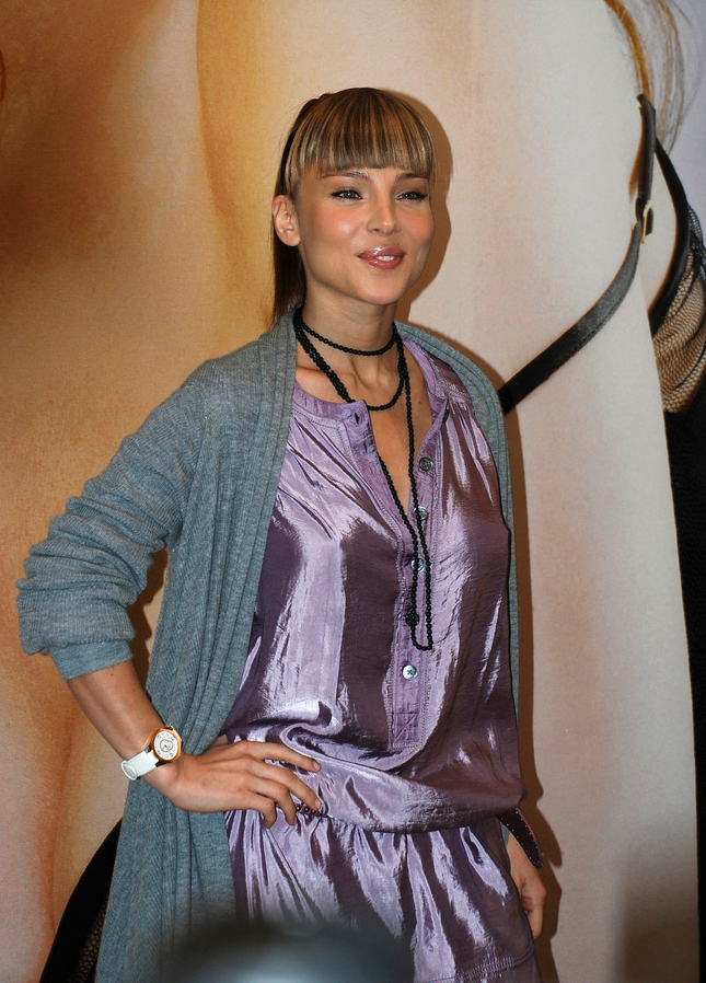 Spanish actress Elsa Pataky at Time Force's new collection presentation. El Informador Digital.